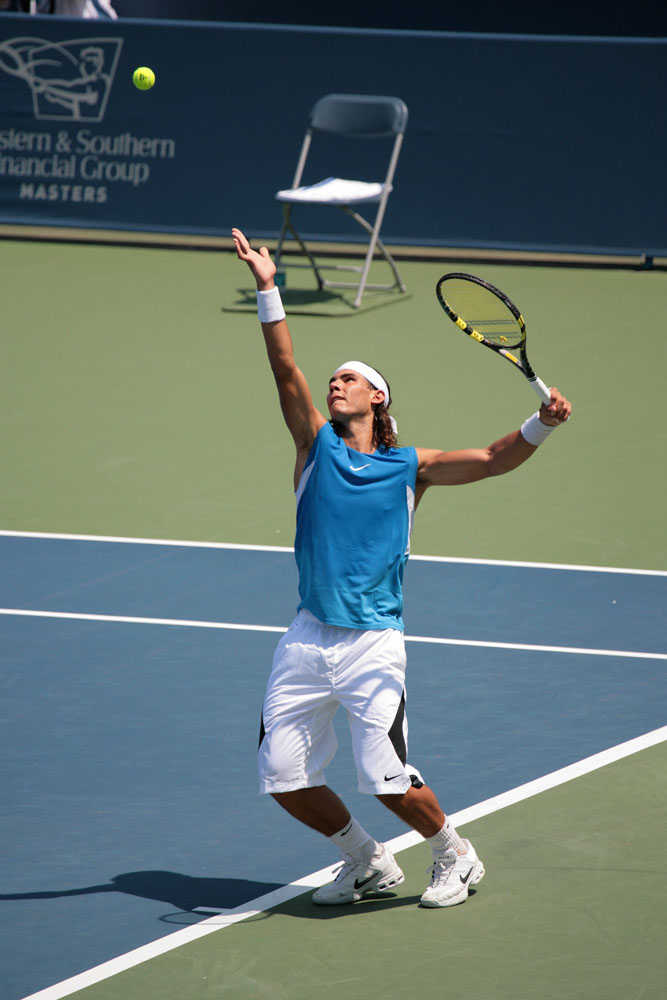 Rafael Nadal vs Tommy Haas 2006 Western & Southern Financial Group Masters Cincinnati, Ohio